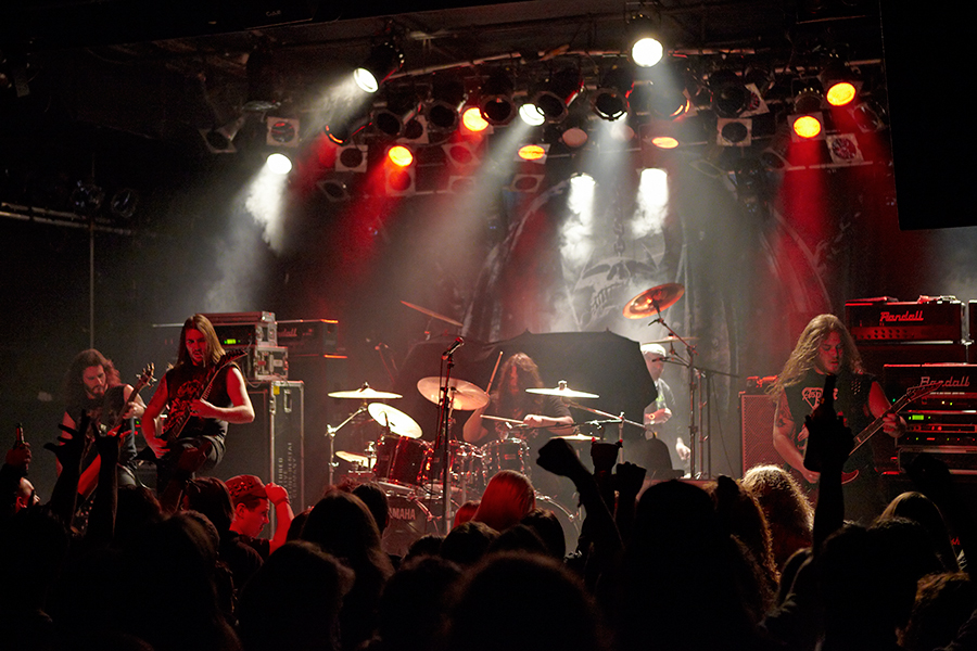 Photo of Suicidal Angels in Berlin, SO36, 12.02.2010